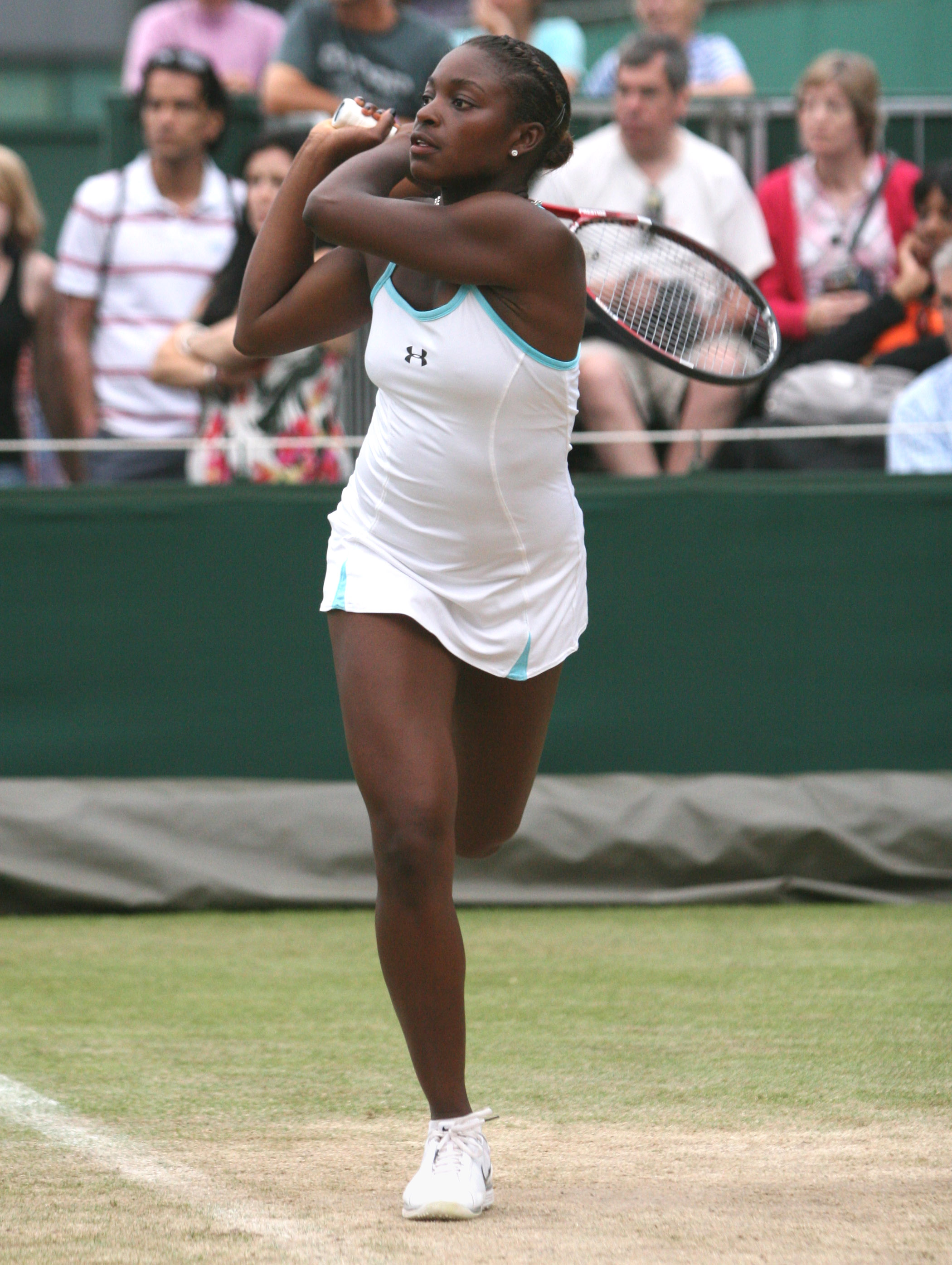 Sloane Stephens playing in the girls doubles second round at Wimbledon on 1st July 2010